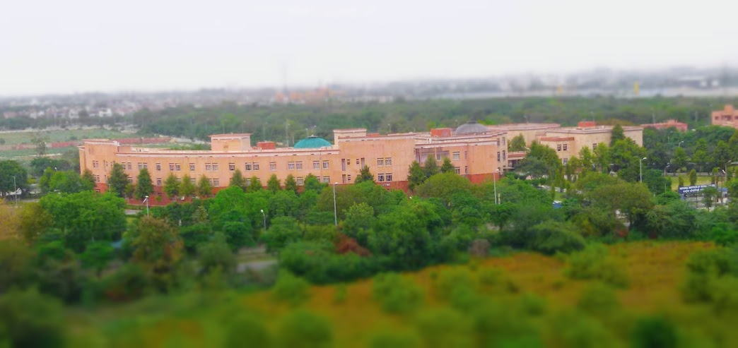 An areal view shot of NIT Delhi Temporary campus at Narela.